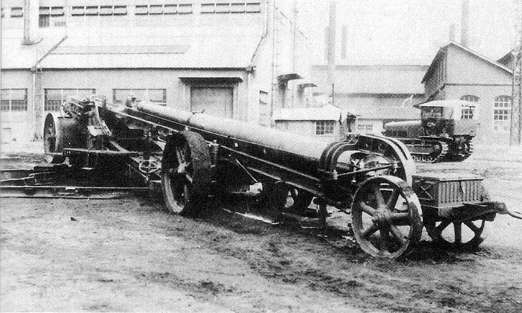 Type 96 15-cm-Cannon of the Imperial Japanese Army